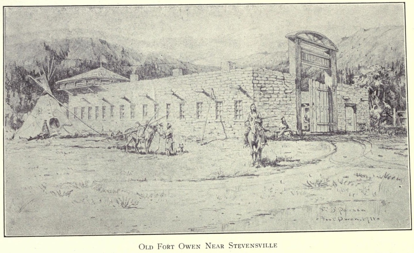 Drawing of the Trading post Fort Owen, near Stevensville, Montana. Built by John Owen. The Flathead (Salish) Indians traded here